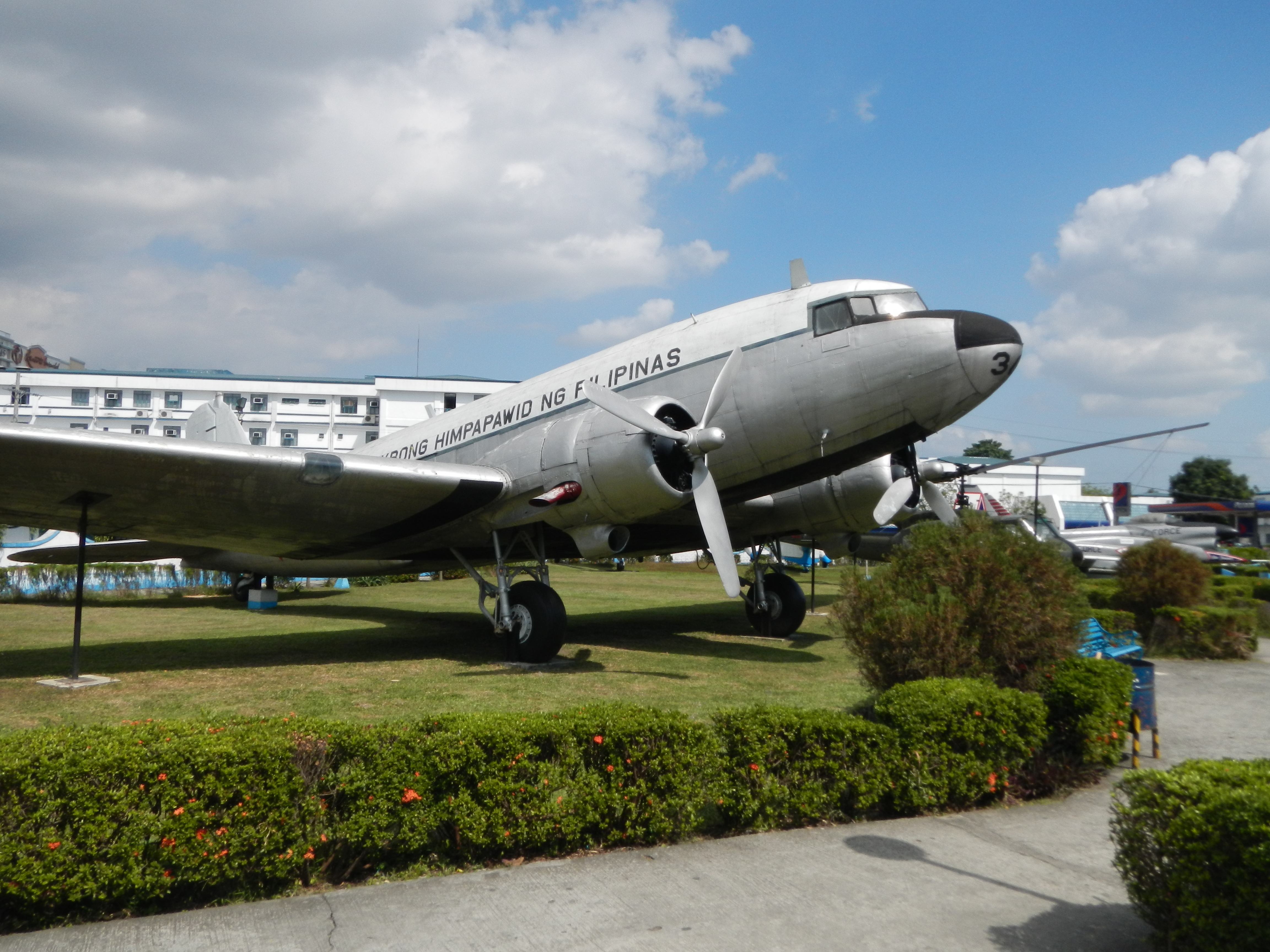 Upload Wizard photos of - Aermacchi SF.260[1] - Villamor Air Base [2] named after Jesús A. Villamor [3] Philippine Air Force [4] locted at Parañaque City and Pasay City, Metro Manila - the - Philippine Air Force Museum or Villamor Air Base Aircraft PAF Museum or Aerospace Museum Villamor Air Base Pasay City [5] --- List of former aircraft of the Philippine Air Force [6] - the Museum includes --- a) The Bell UH-1 Iroquois unofficially Huey [7] Bell UH-1 Iroquois Bell UH-1 family UH-1 Huey, b) North American F-86 Sabre [8] c) Lockheed T-33 [9] T-33 at the Philippine Air Force Museum at Villamor Air Base d) Vought F-8 Crusader redirect from F-8 [10] F-8H Crusader of the Philippine Air Force. c. 1978 e) North American F-86D Sabre [11] Acquired 20 F-86Ds, beginning 1957; part of the U.S. military assistance package f) F-86D of the Philippine Air Force Northrop F-5A/B Freedom Fighter and the F-5E/F Tiger II [12] [13] the Philippine Air Force acquired 37 F-5A/B from 1965 to 1998 g) Sikorsky S-62 [14] S-62B One S-62 was fitted with the main rotor system of the S-58 h) Douglas C-47 Skytrain [15] Philippine Air Force President Magsaysay of the Philippines was killed in the crash of a Philippine Air Force C-47 in 1957 Some were ex-RAAF C-47s received as foreign aid.[16] i) Grumman HU-16 Albatross [17] j) NAMC YS-11[18] k) Beechcraft T-34 Mentor[19] Beechcraft T-34 Mentor l) Cessna T-41 Mescalero[20] m) North American T-6 Texan[21] n) North American T-28 Trojan [22] T-28C 140533 - Villamor AB in Manila, The Philippines.